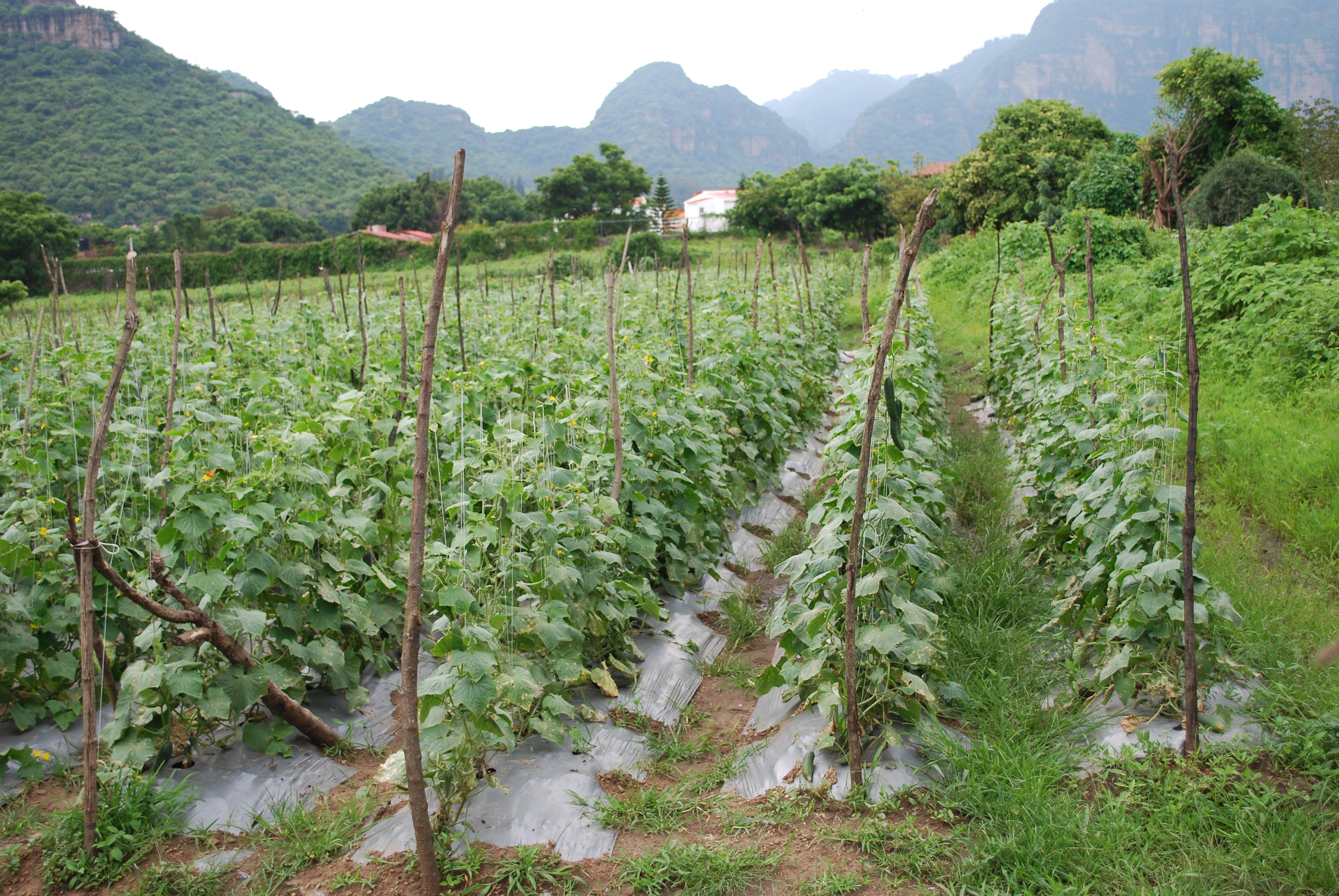 Cucumber field in Tlayacapan, Morelos, Mexico